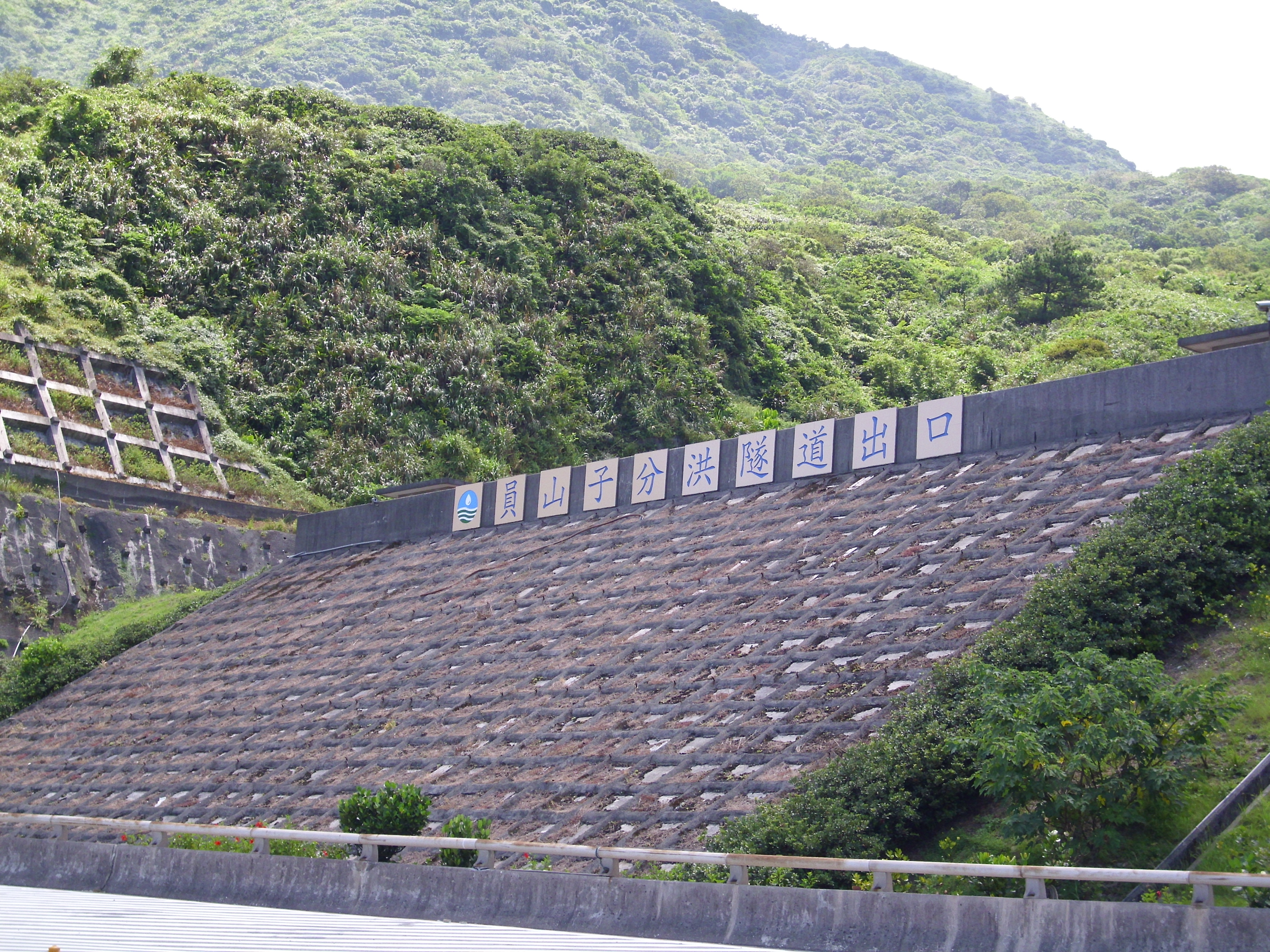 The Outlet of Yuan-Shan-Tsu Diversion Tunnel